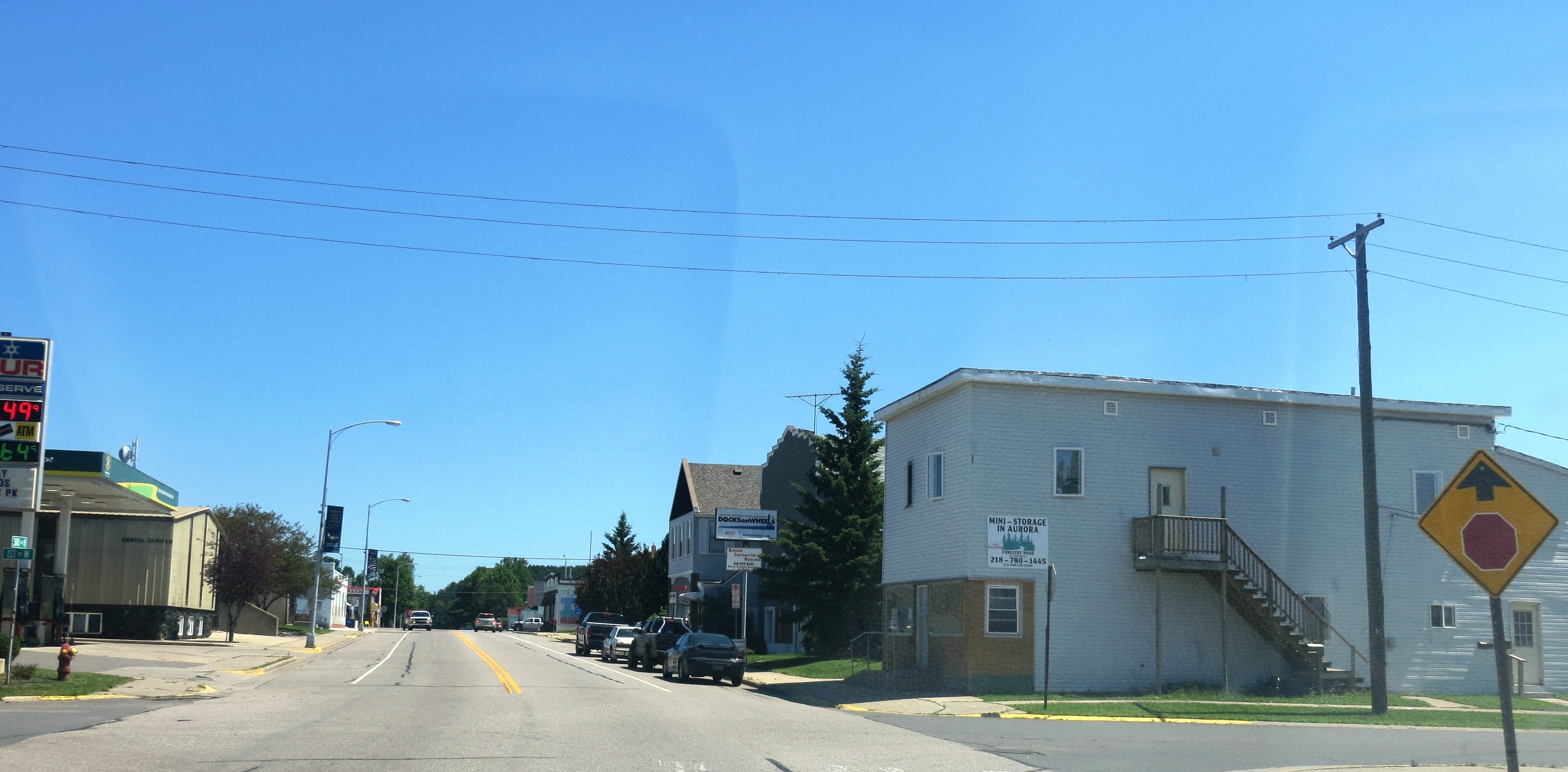 Aurora township of St Louis county, along county highway 135 / 100.